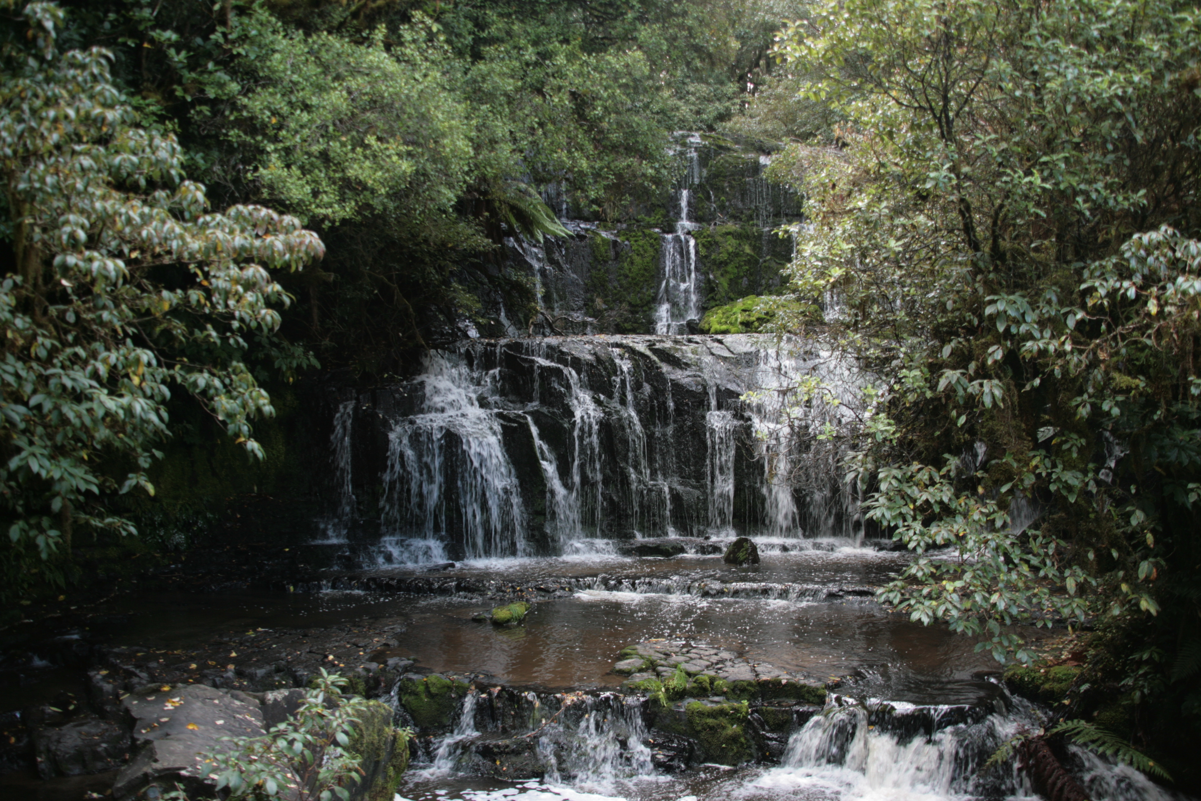 Waterfalls in southeastern New Zealand, Purakaunui Falls.